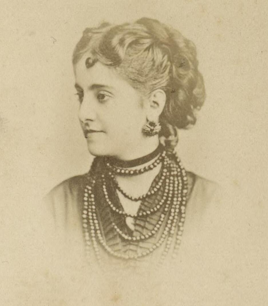 A portrait from the Welsh Portrait Collection at the National Library of Wales. Depicted person: Adelina Patti – opera singer